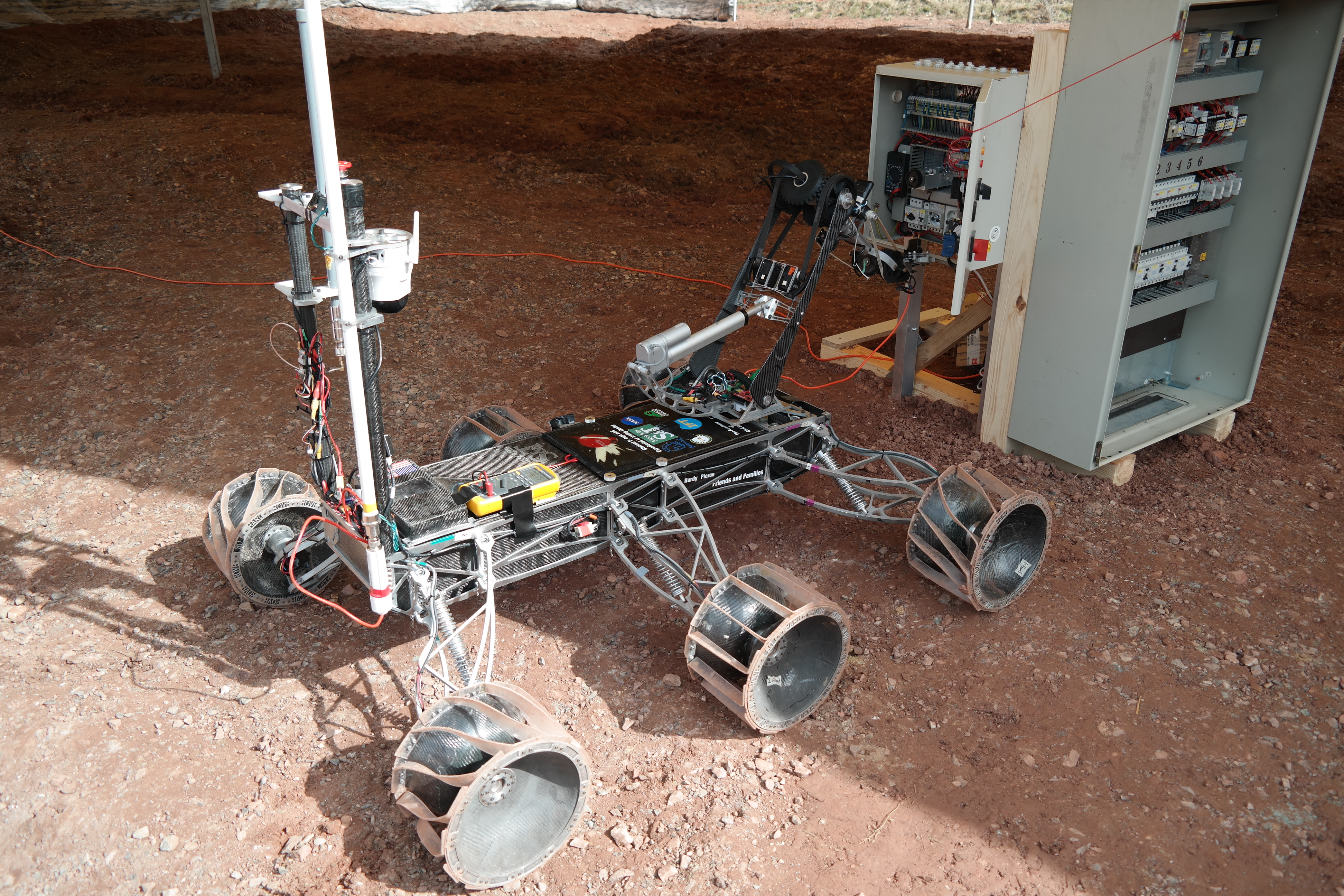 European Rover Challenge 2015, 5-6 September, Podzamcze near Chęciny near Kielce, Poland. The 10th place rover, built and run by the Missouri University of Science and Technology Mars Rover Design Team (MRDT). Second day of the competition, the rover during one of the terrain tasks - maintenance task (reactor), first of two panels serviced with a robotic arm.